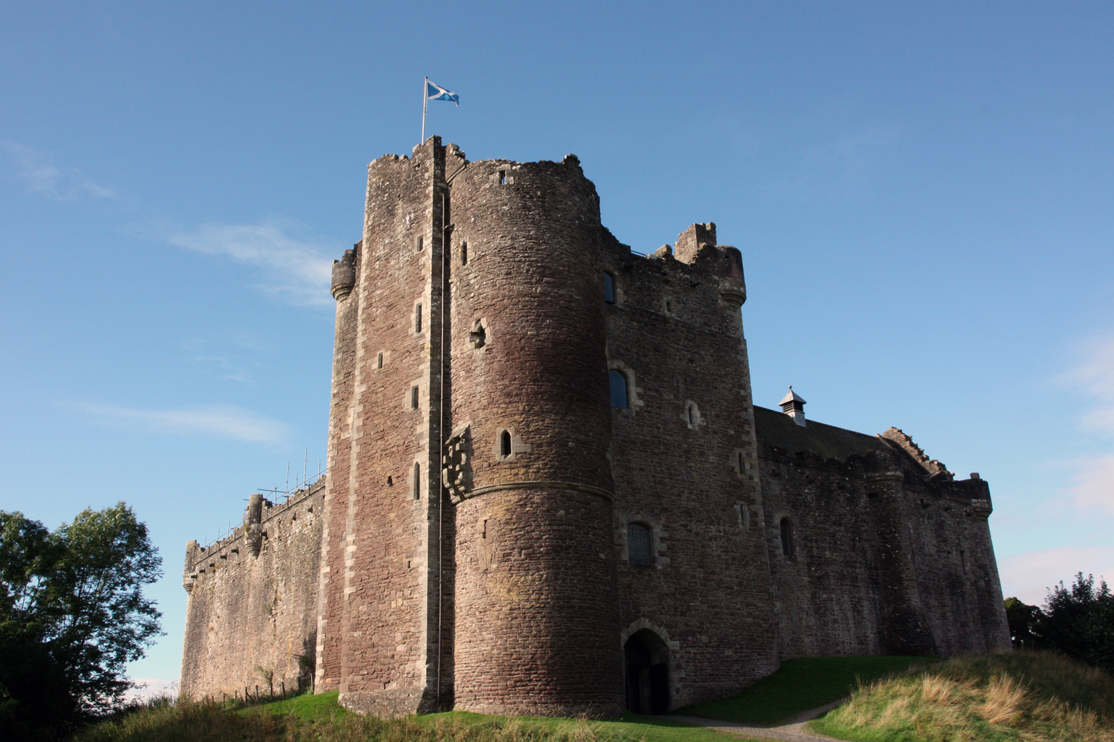 Doune Castle: Medieval stronghold near the village of Doune, in the Stirling district of central Scotland. Picture taken in September 2013, view from Northeast.